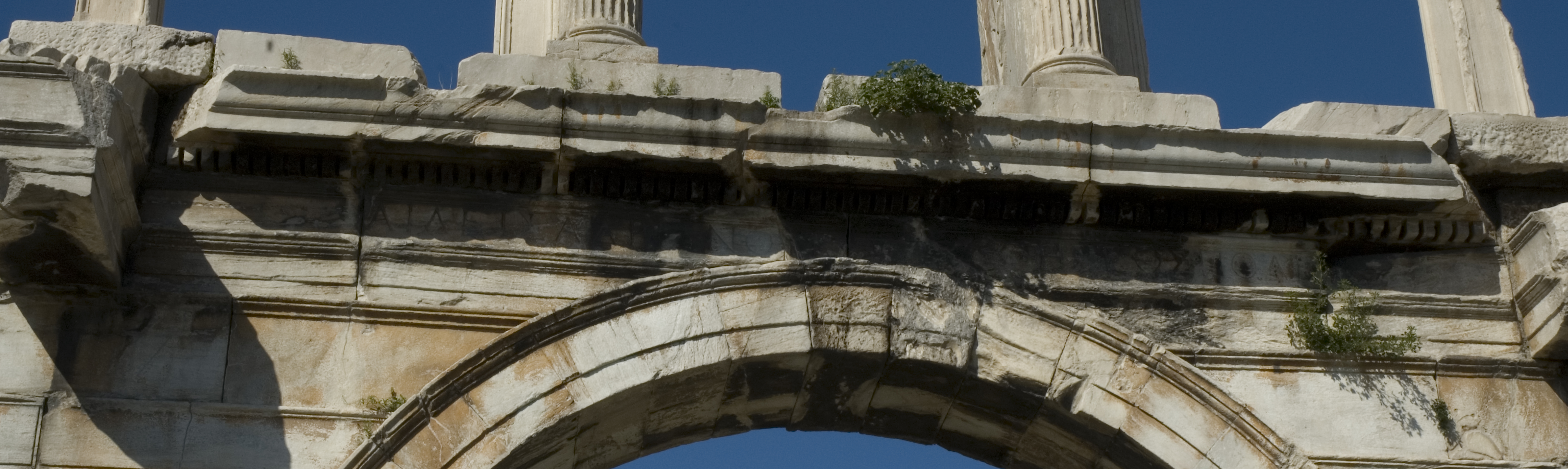 J. Matthew Harrington, personal digital image